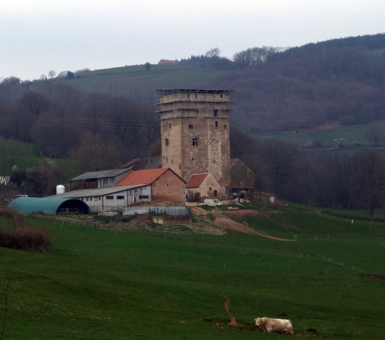 Burgundy, FRANCE